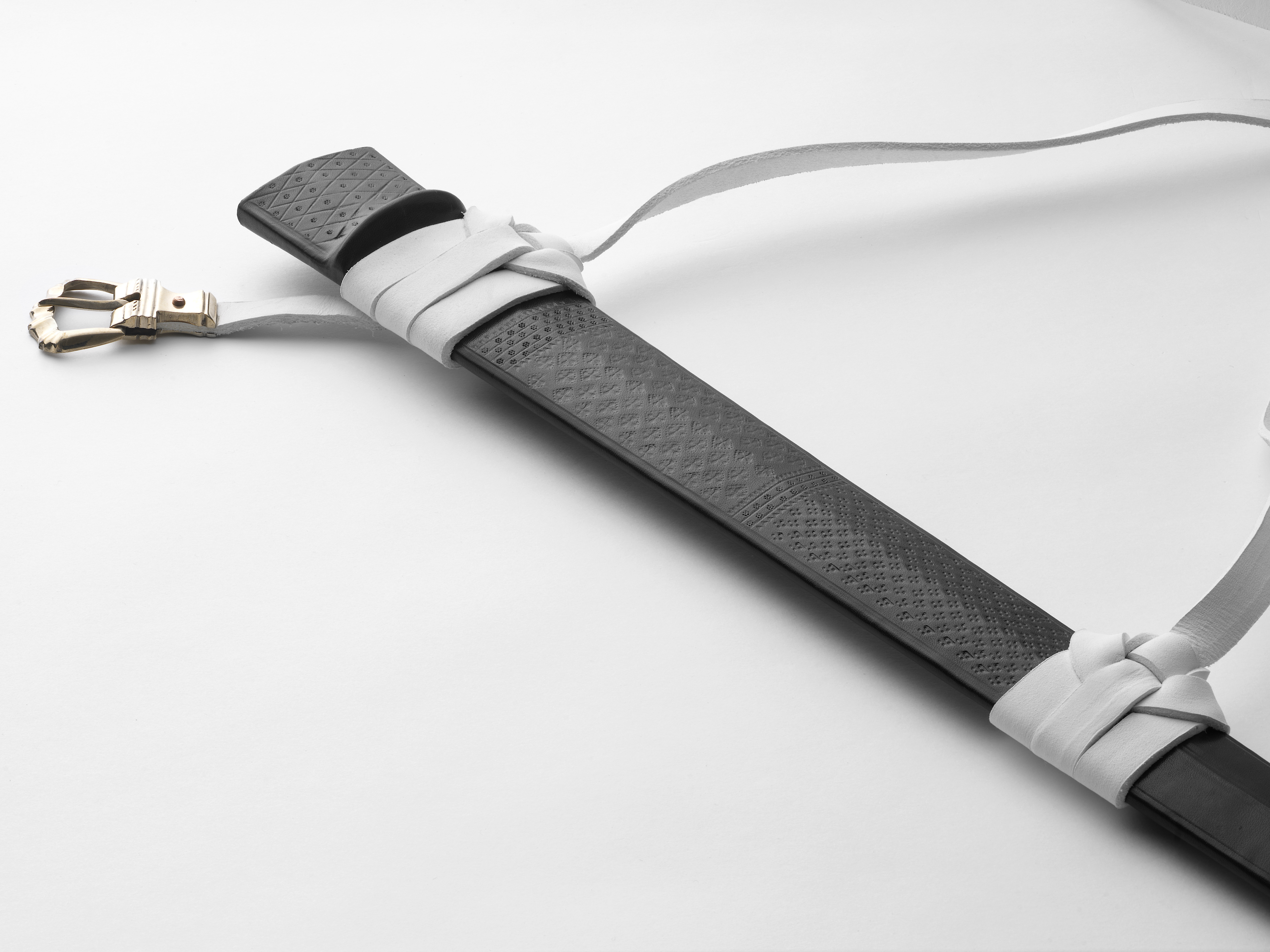 A period scabbard for the Museum Line Ljubljana made by